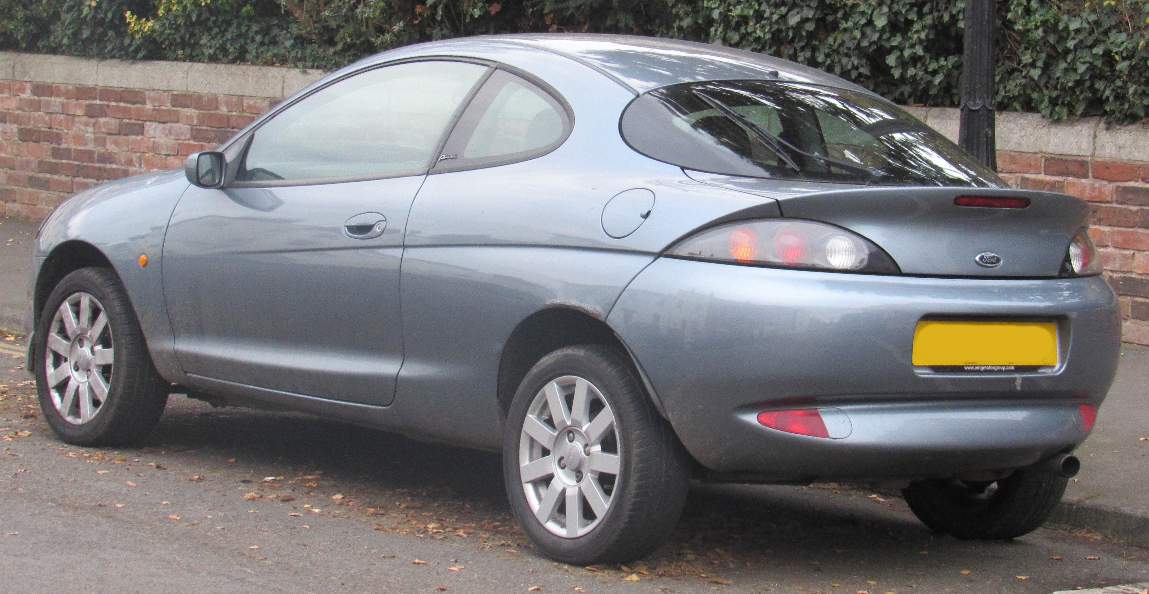 2002 Ford Puma 16V 1.7 Rear Taken in Leamington Spa